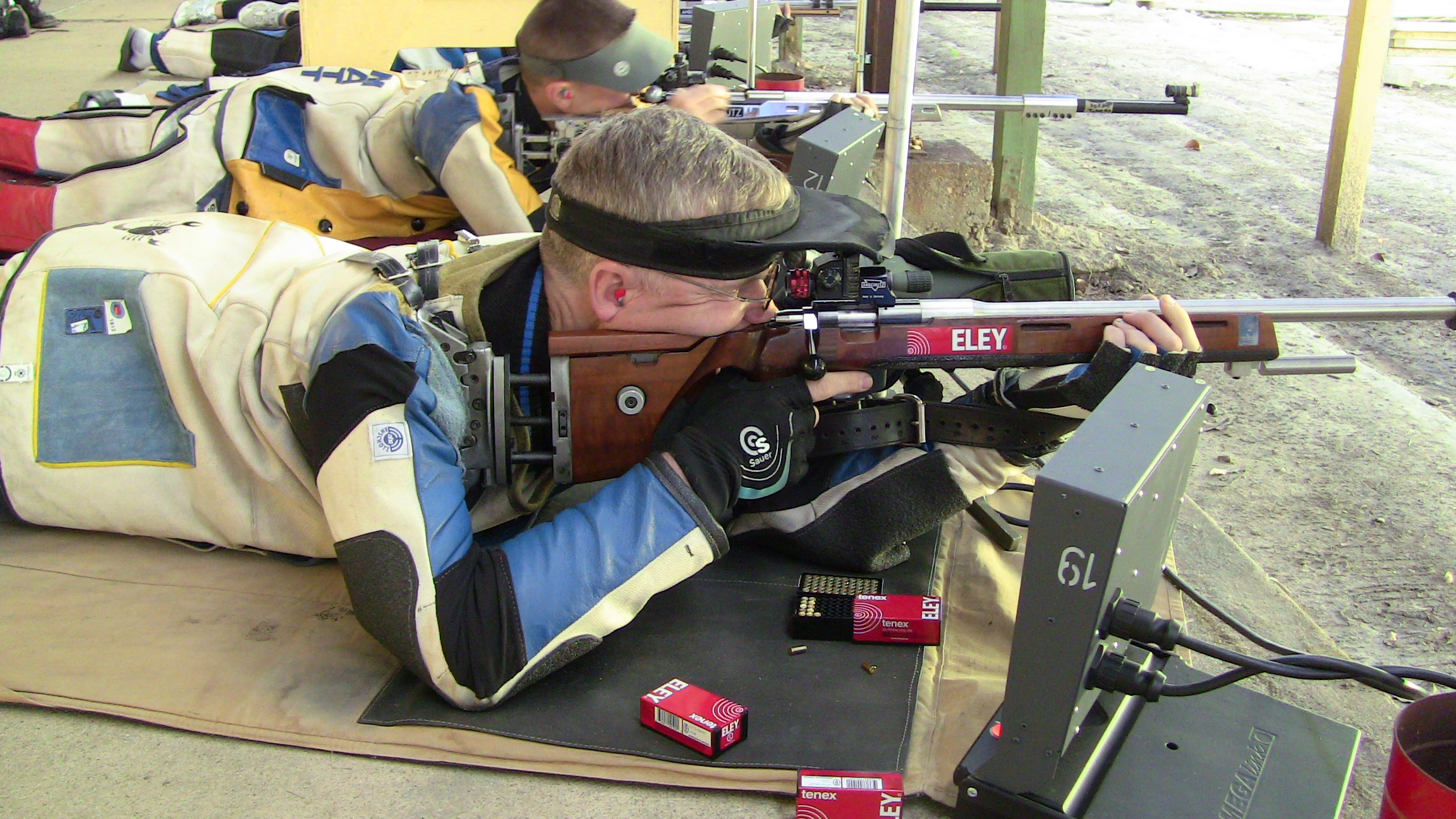 US Olympic shooter Eric Uptagrafft in prone position, Los Angeles Rifle and Revolver Club, 2012